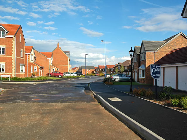 Scarecrow Lane, Roughley. These are new houses built around 2001-2003.